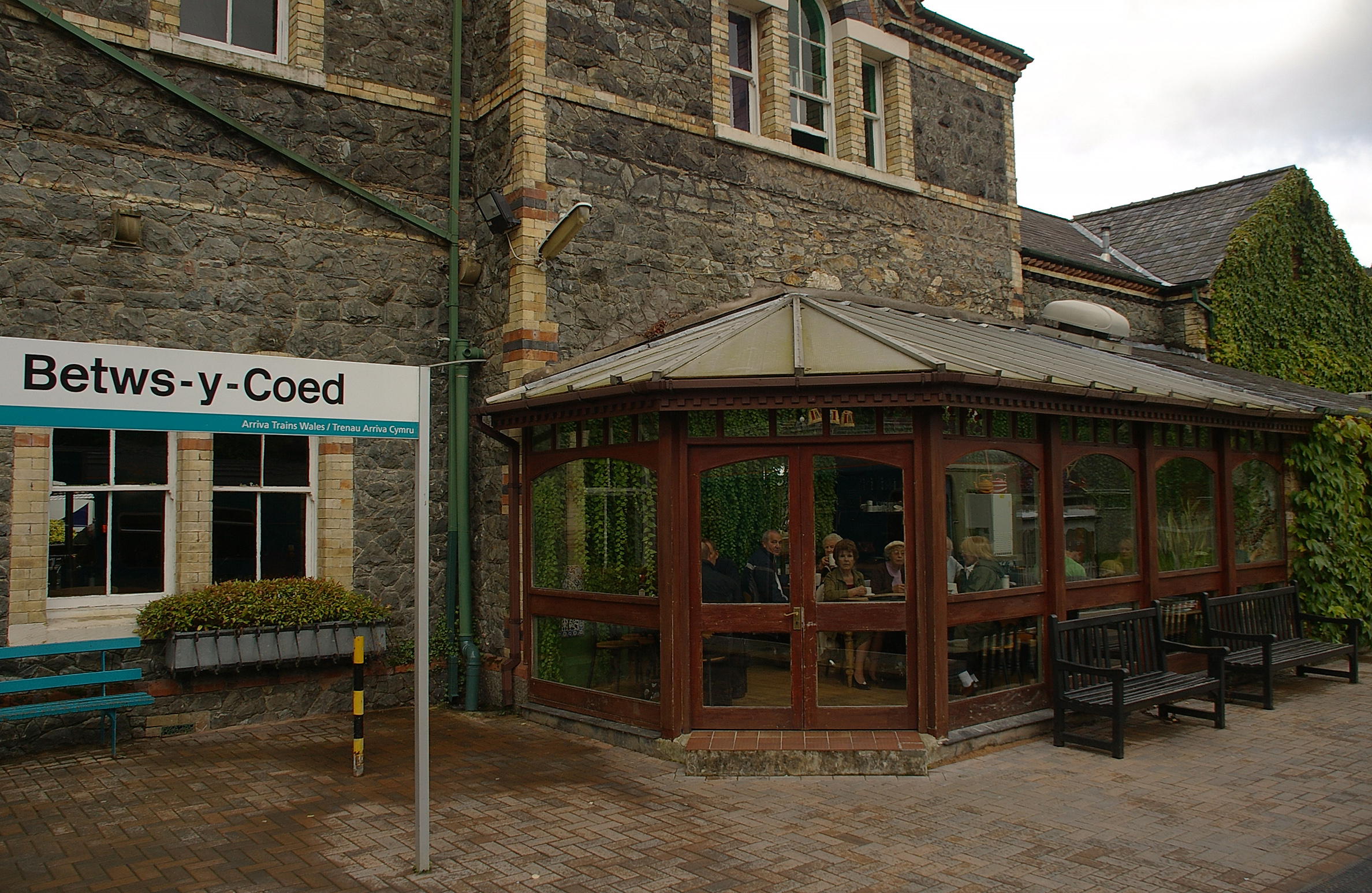 Betws-y-Coed railway station. I like the expression of the people in the café.